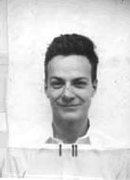 Los Alamos wartime badge photo: Richard Feynman